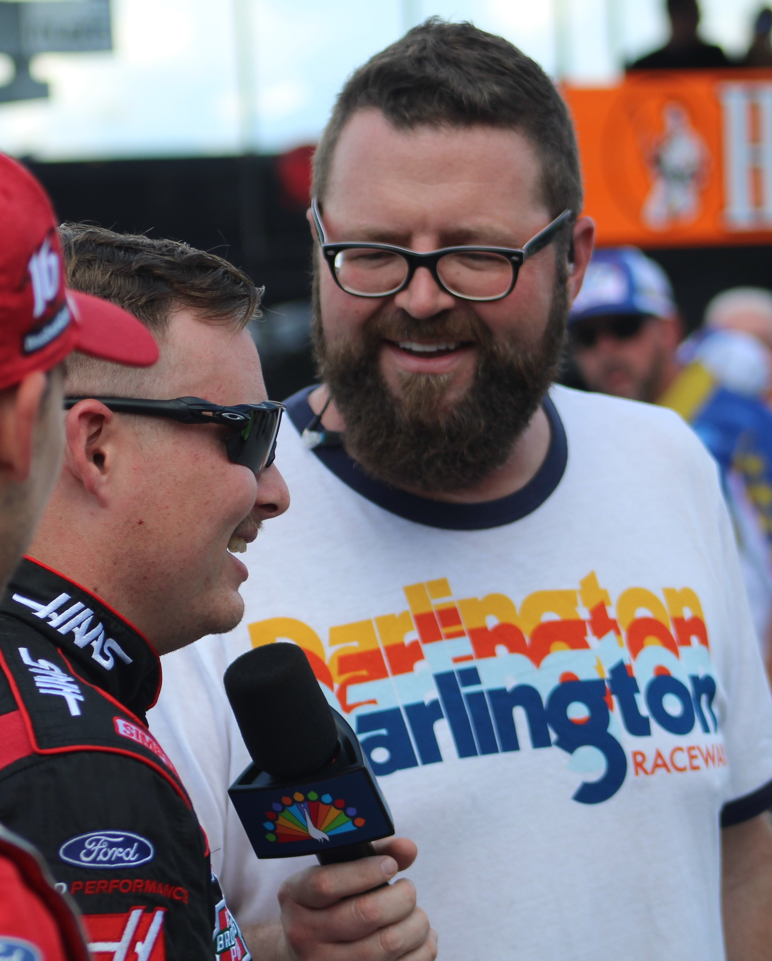 Rutledge Wood conducting an interview with Cole Custer and Ryan Reed at Darlington Raceway in 2018